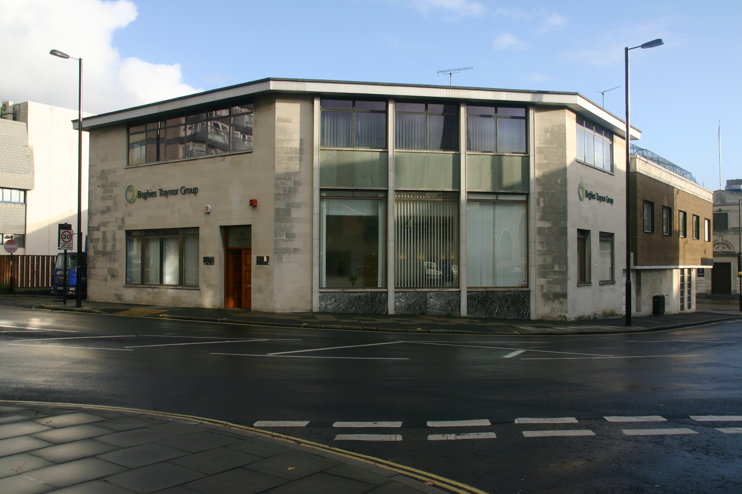 A November 2011 view of the Southampton office of Manchester-based financial firm Begbies Traynor Group.